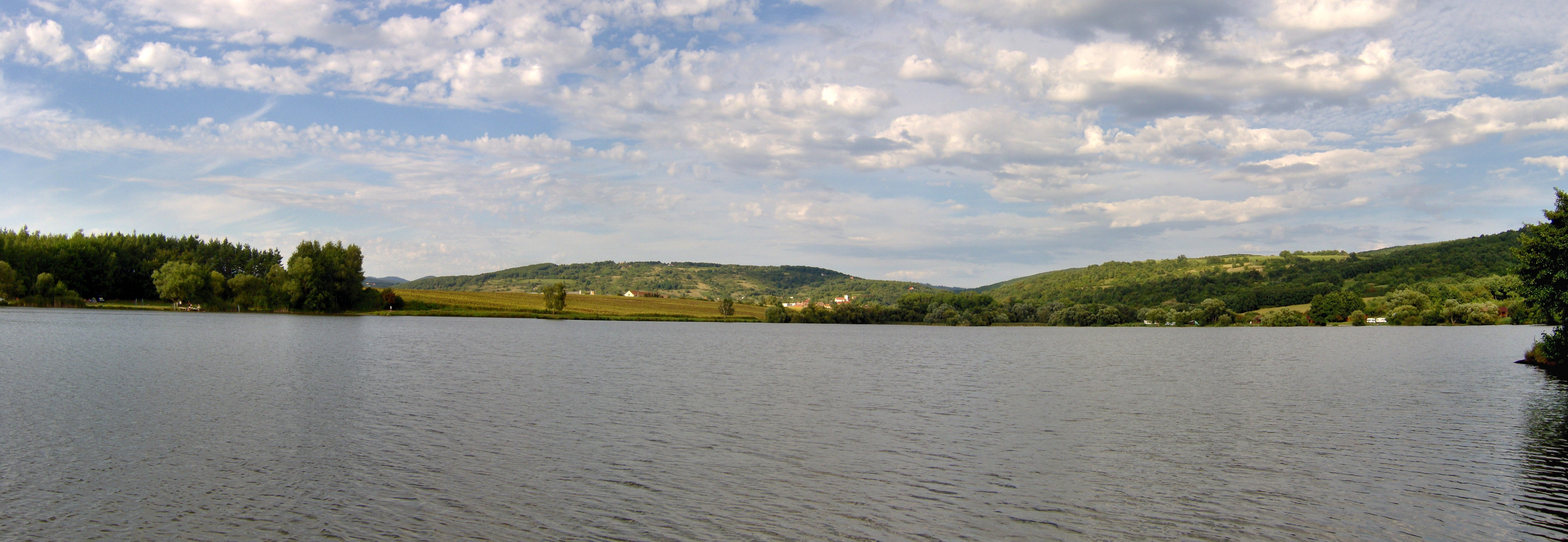 Bátovce, reservoir